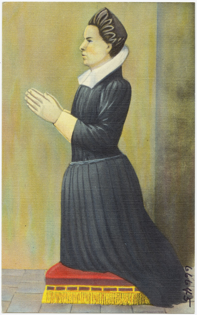 File name: 06_10_001711 Title: Elizabeth Pole -- Foundress of Taunton, Mass. Created/Published: Tichnor Bros. Inc., Boston, Mass. Date issued: 1930 - 1945 (approximate) Physical description: 1 print (postcard) : linen texture, color ; 5 1/2 x 3 1/2 in. Genre: Postcards Subjects: Portrait paintings Notes: Title from item. Collection: The Tichnor Brothers Collection Location: Boston Public Library, Print Department Rights: No known restrictions